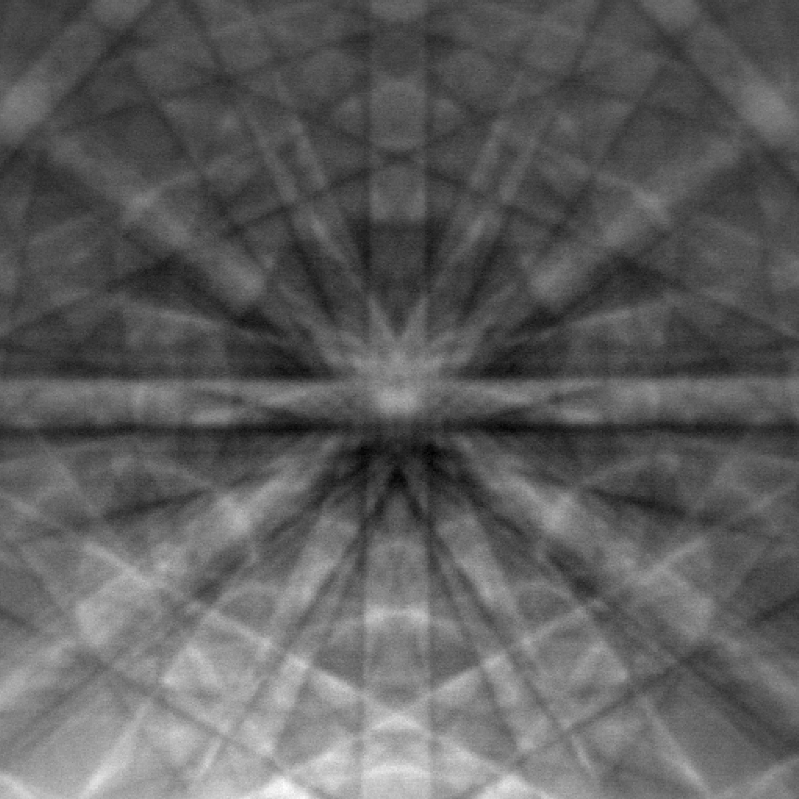 Electron Backscatter Diffraction Pattern from an Single Crystal of Silicon